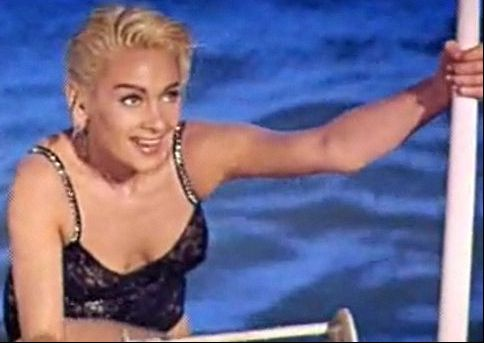 Cropped screenshot of Martine Carol from the trailer for the film Action of the Tiger.